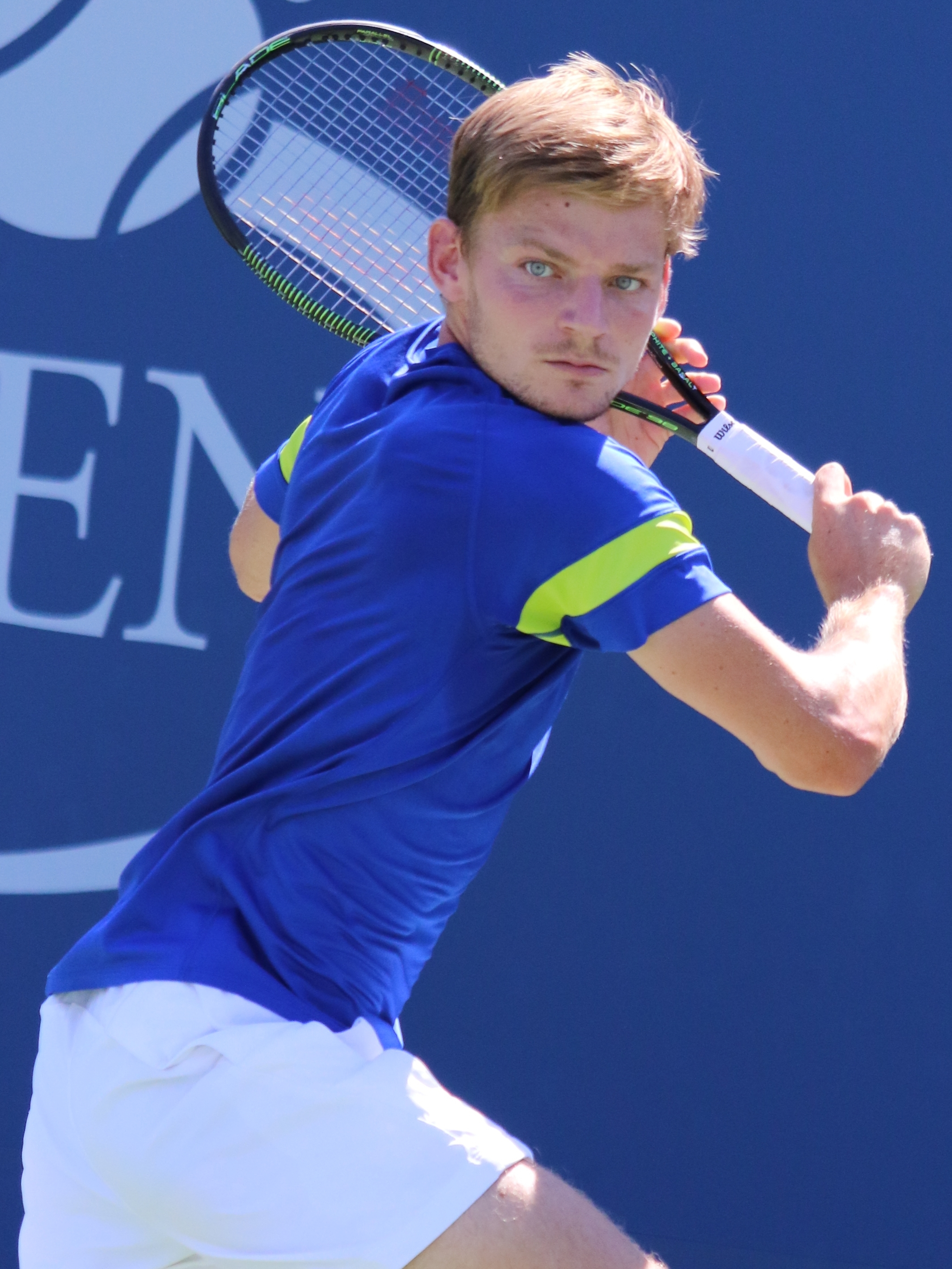 Goffin US16 (37)